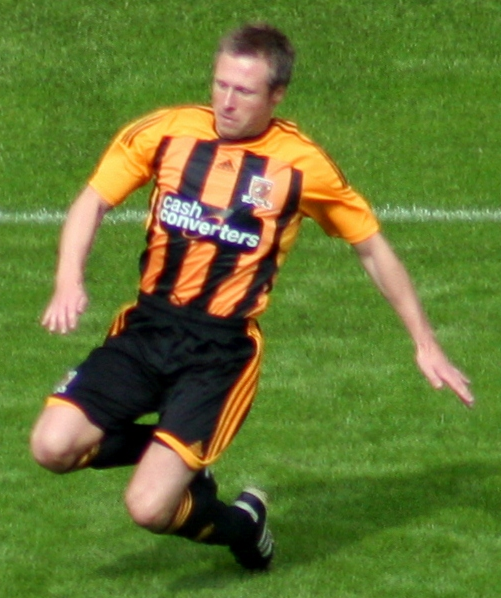 Nick Barmby. Image cropped from original at flickr.